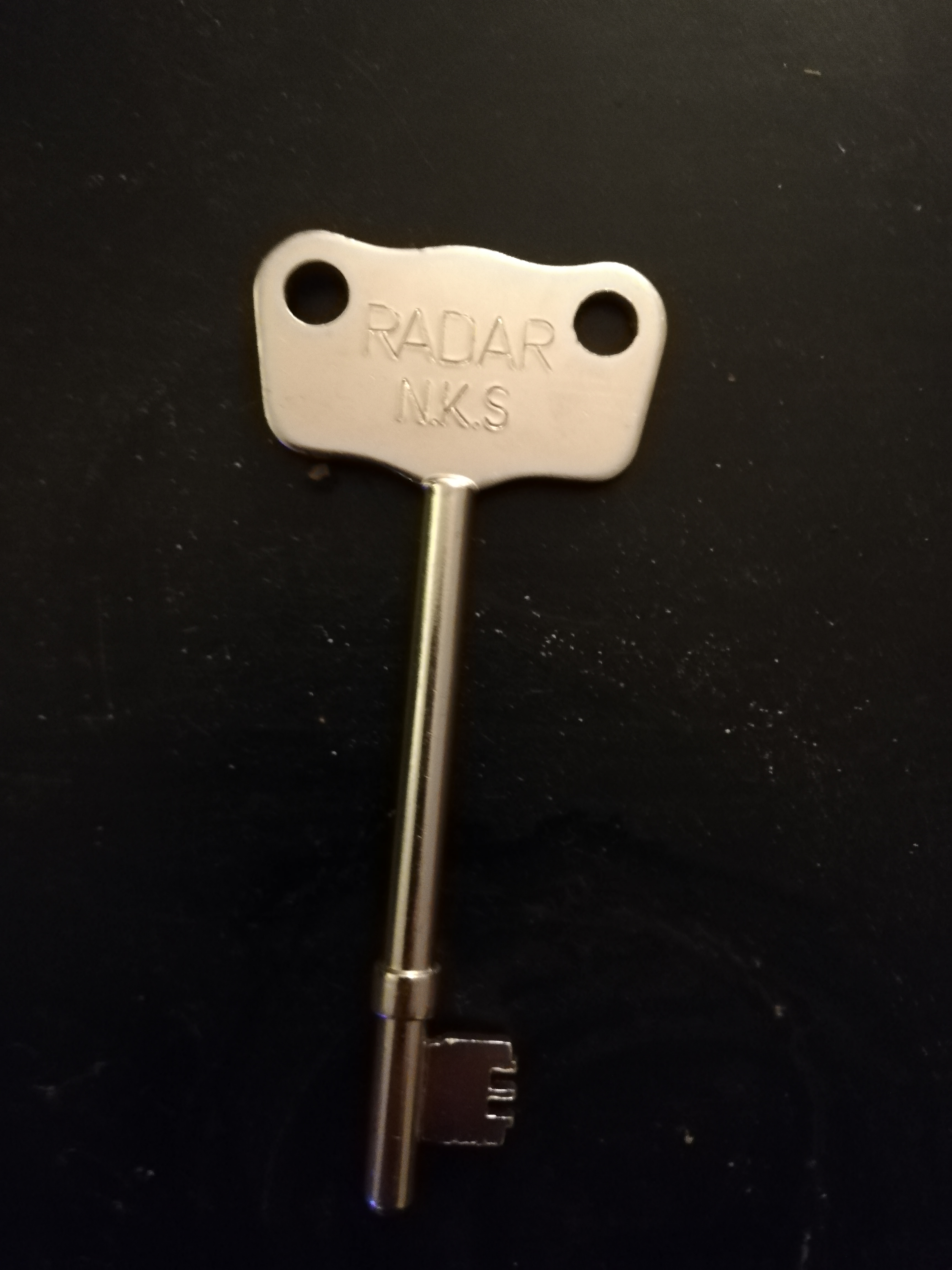 This photograph shows a National Key Scheme Key for accessible toilets in the UK.